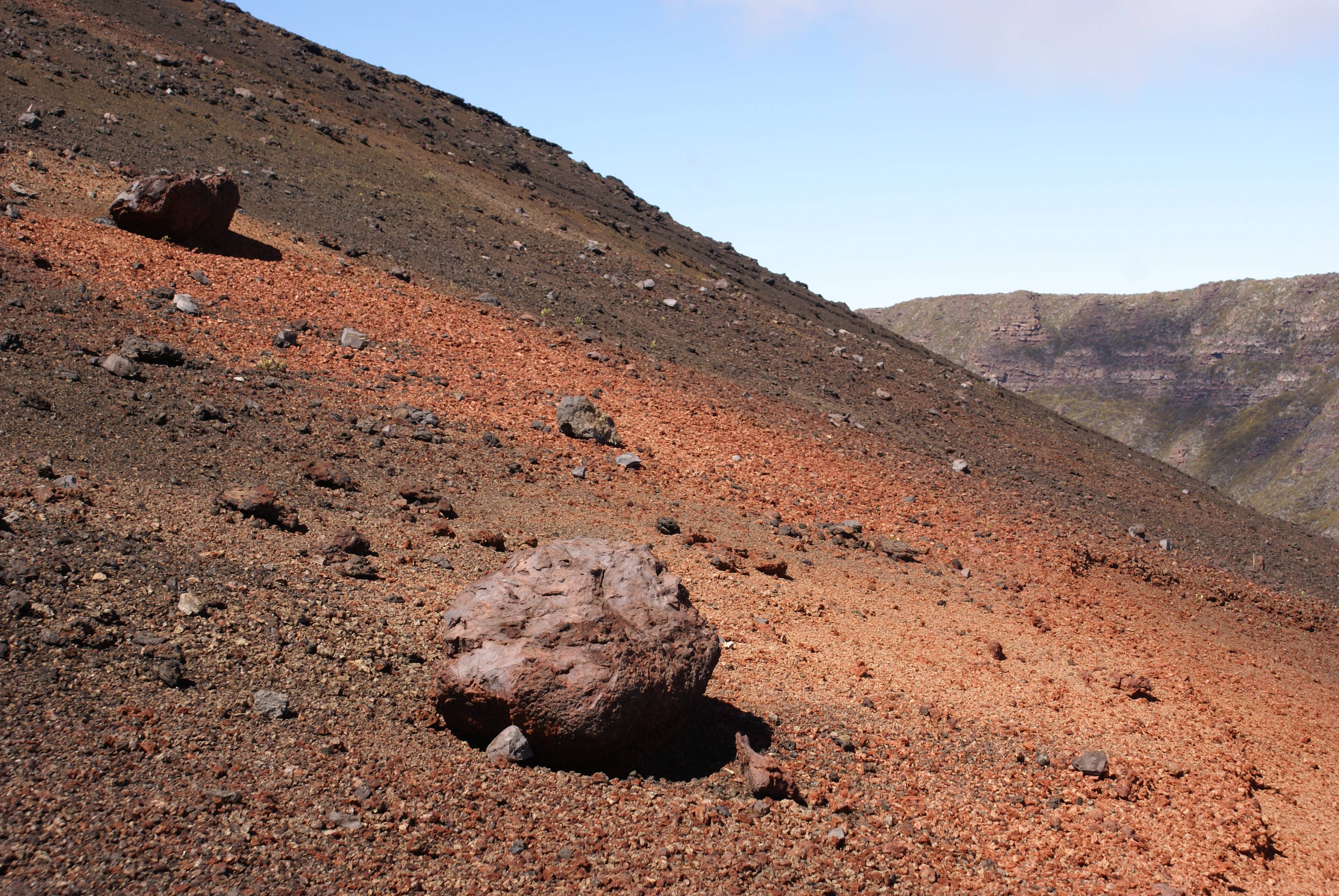 Volcanic bombs on the west face of Piton Chisny (Réunion Island)